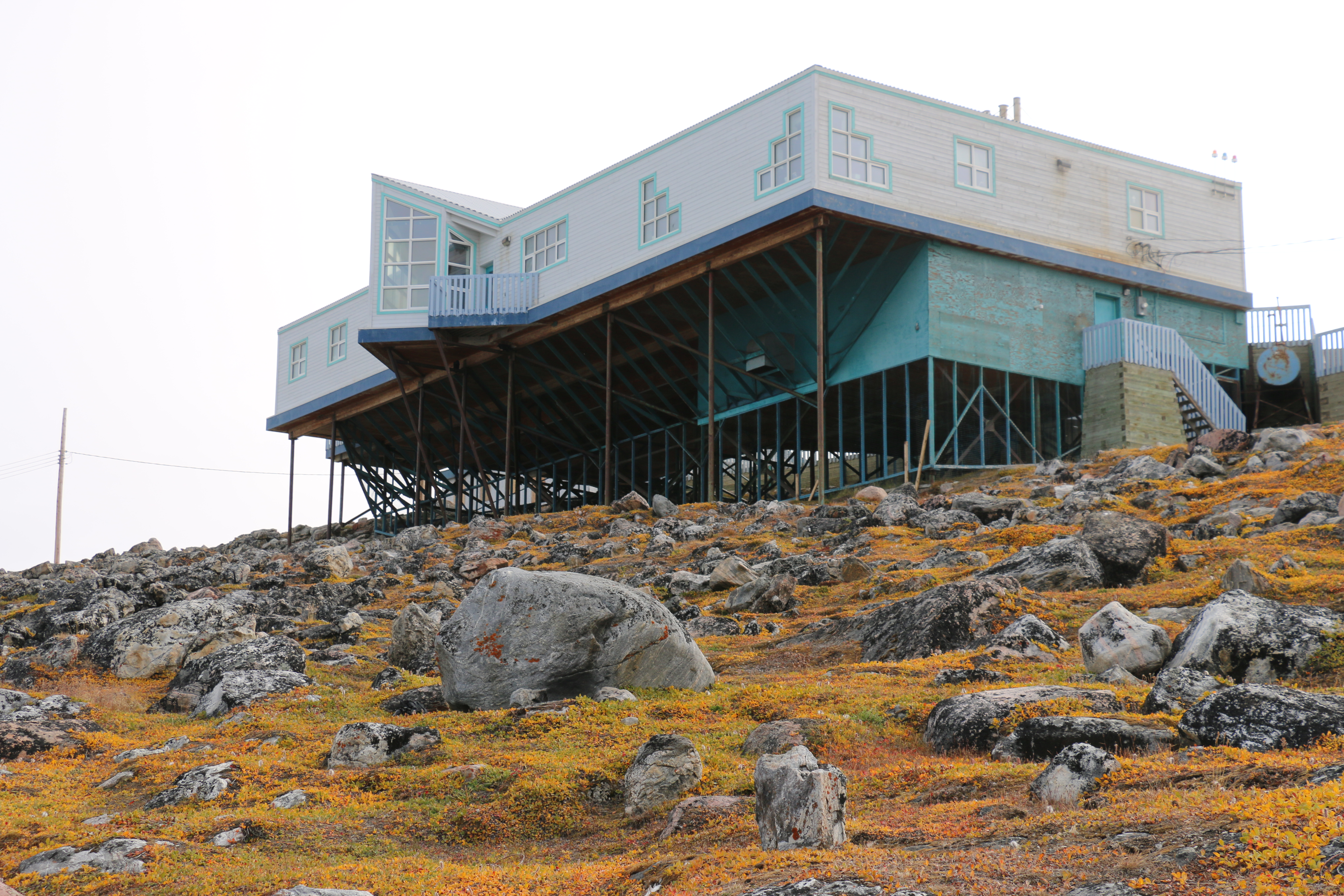 2015 photograph of the Nattinnak visitor centre and library in Pond Inlet Nunavut